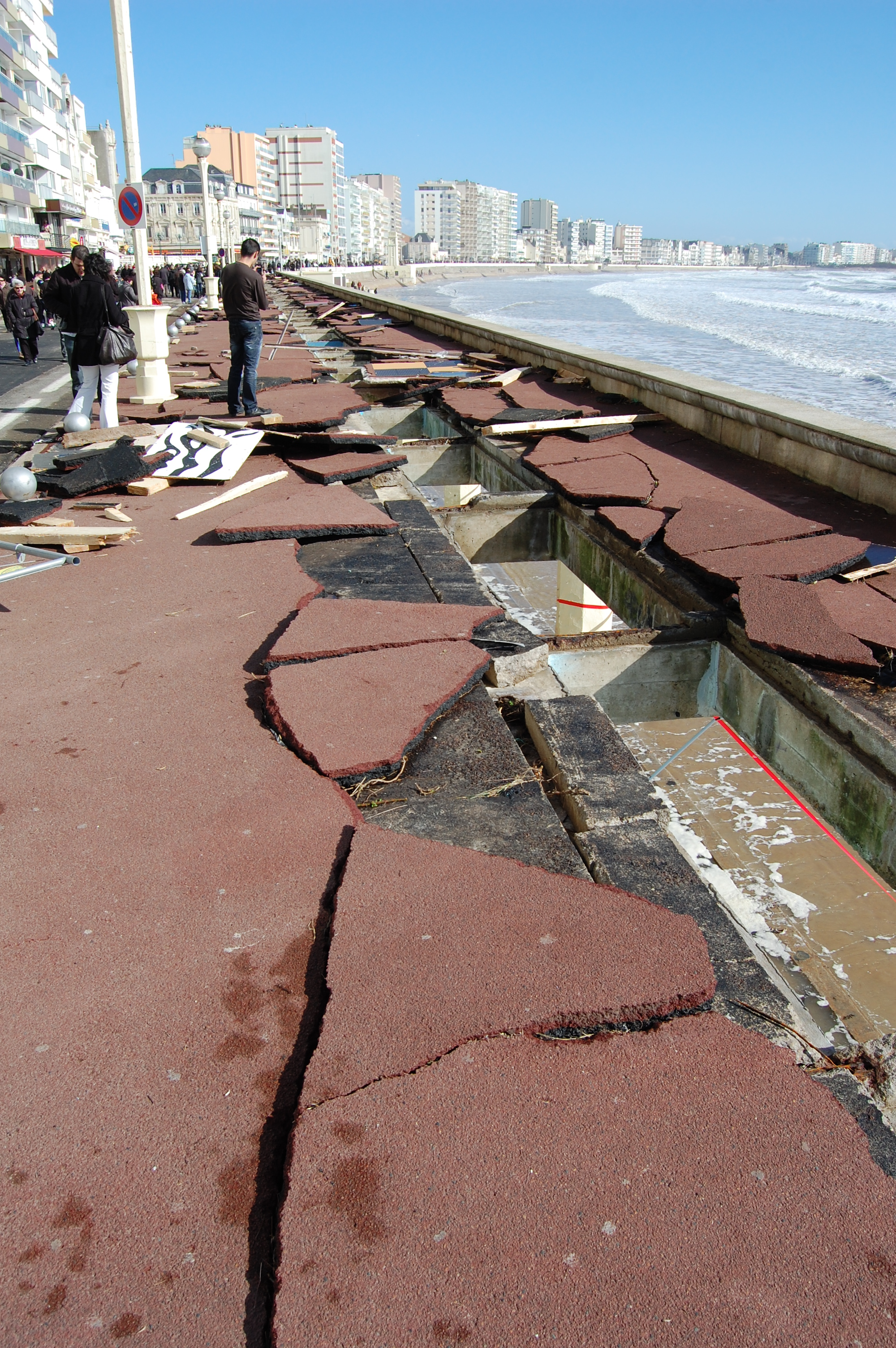 Sea front of Les Sables d'Olonne after the storm "Xynthia"